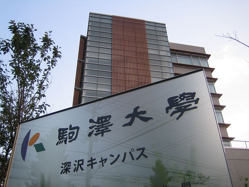 Komazawa University Fukazawa campas